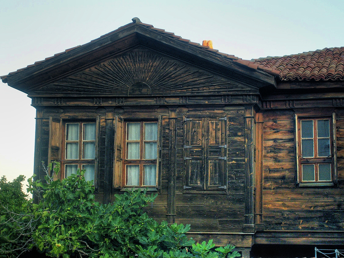 Traditional wooden house in Sozopol